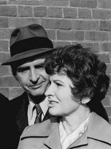 Photo of Dan Frazer and Jean LeBouvier from the television program Kojak (1975).